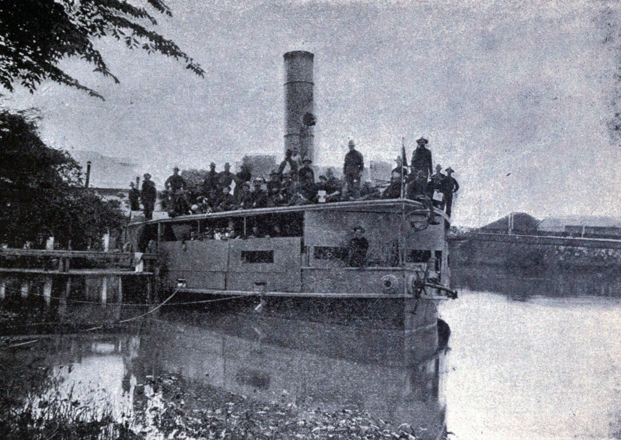 Original description (cropped out): River Gunboat Laguna de Bay: This little river boat commanded by Major Grant, Utah Artillery U. S. U. took a most important and active part in the operations against the Insurgents; and many a Filipino owes his instantaneous transportation to the happy though mysterious beyond, to the good aim of this boat's gunners. From Souvenir of the 8th Army Corps, Philippine Expedition, published by Dow Bros. in Manila, 1899.